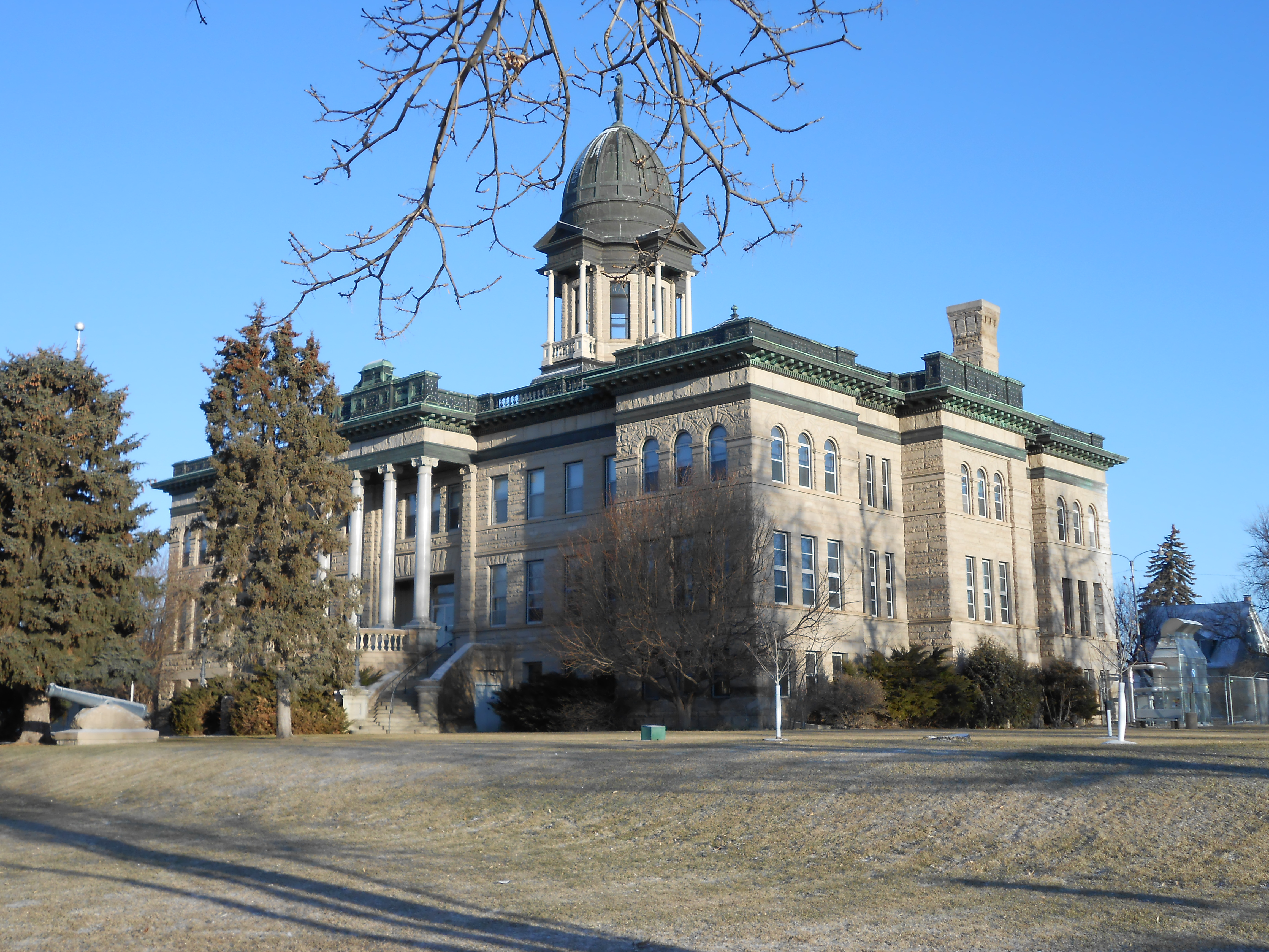 Cascade County Courthouse, Great Falls, Montana